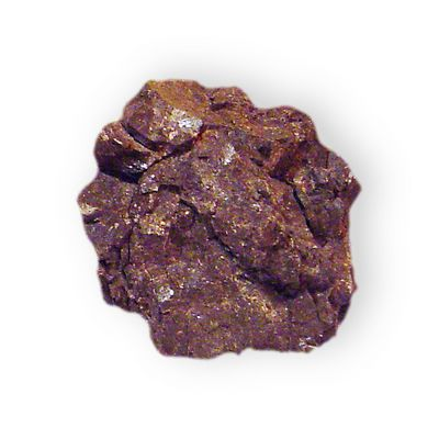 These mineral images are free to use how you wish.